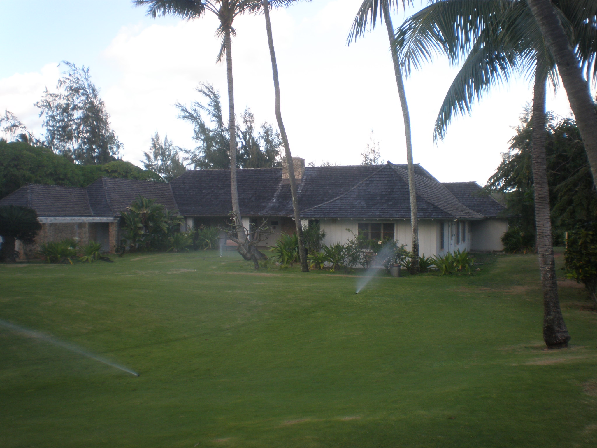 Boettcher Estate, 248 N. Kalaheo Ave., Kailua, Hawaii. On U.S. National Register of Historic Places